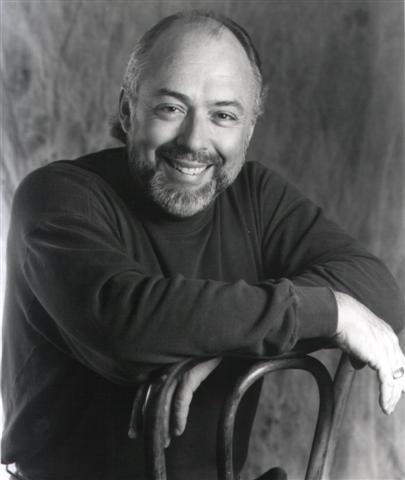 Photography of Mark Ritts, the Lester of Beakman's World, shot by himself for English Wikipedia